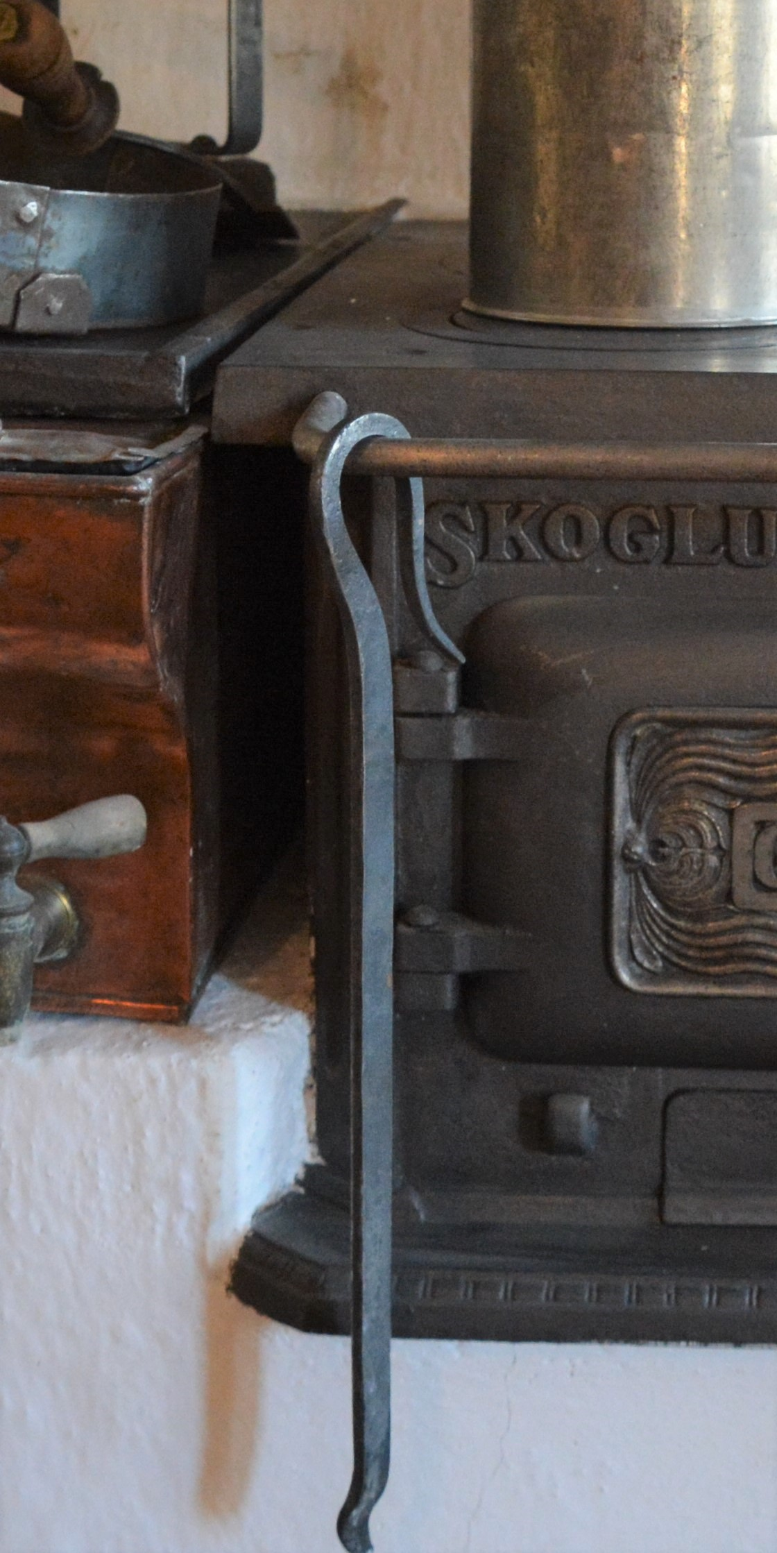 Spiskrok